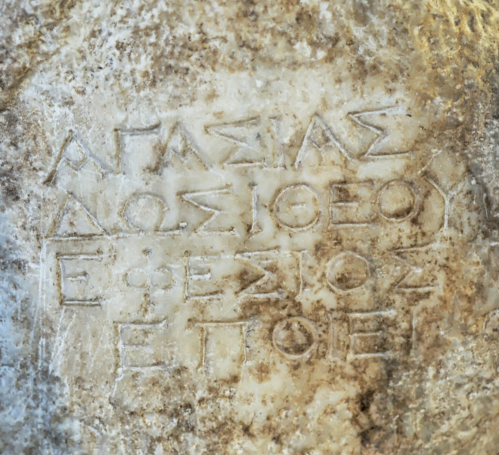 Signature on the tree-trunk support of the Borghese Gladiator: ΑΓΑΣΙΑΣ ΔΩΣΙΘΕΟΥ ΕΦΕΣΙΟΣ ΕΠΟΙΕΙ / Agasias Dositheou Ephesios epoiei (“Agasias, son of Dositheos, Ephesian, made [me]”). Pentelic marble, made in Greece or Asia Minor ca. 100 BC. Found before 1611 in Nettuno (ancient Antium), in the ruins of Nero's Villa.